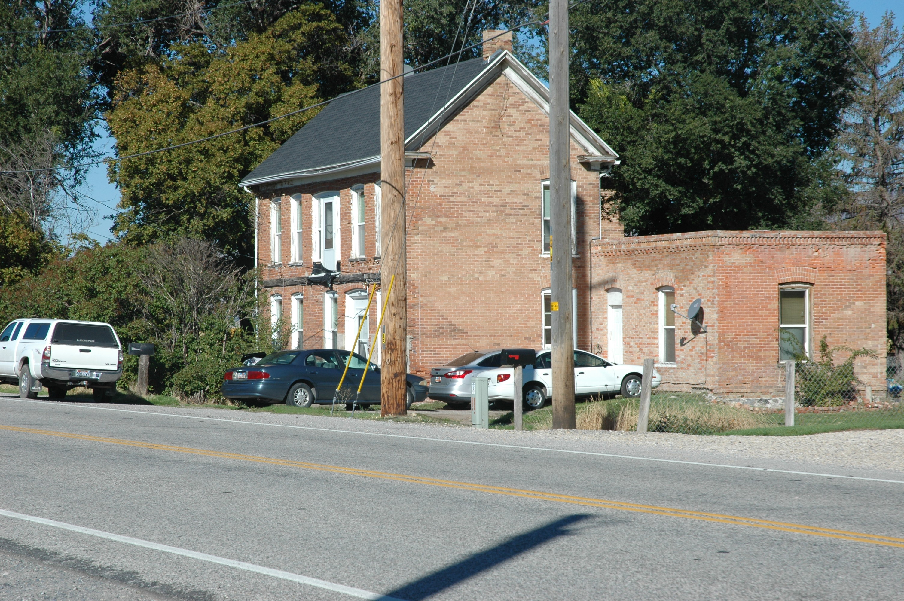 The Fryer Hotel, a historic building in Deweyville, Utah, United States.